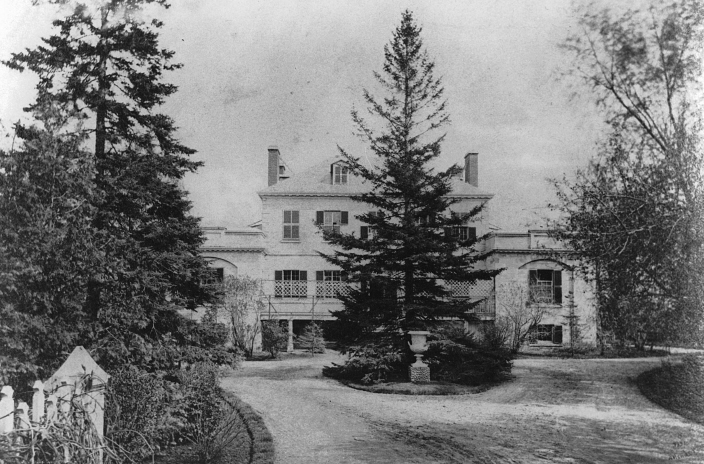 Photograph of the home of John Torrance, built 1818, St. Antoine Hall, rear view, Montreal, Quebec, Canada about 1870